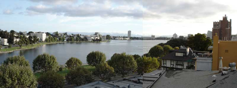 Composite of two images taken by Aran Johnson on September 8, 2005 at 18:42 PM local time. Looking west across Lake Merritt. The street visible through the trees in the foreground is Grand Avenue. On the other side of the lake, the road running alongside the curve of the lake is Lakeshore Drive. The low lying building at the far end of the lake just to the right of center, is the Henry J. Kaiser Convention Center. To the right of that, the square building with the peaked roof is the Oakland Court House. The brick building at the far right of the image is the Bellevue-Staten Building a residential high rise dating from the 1920's.